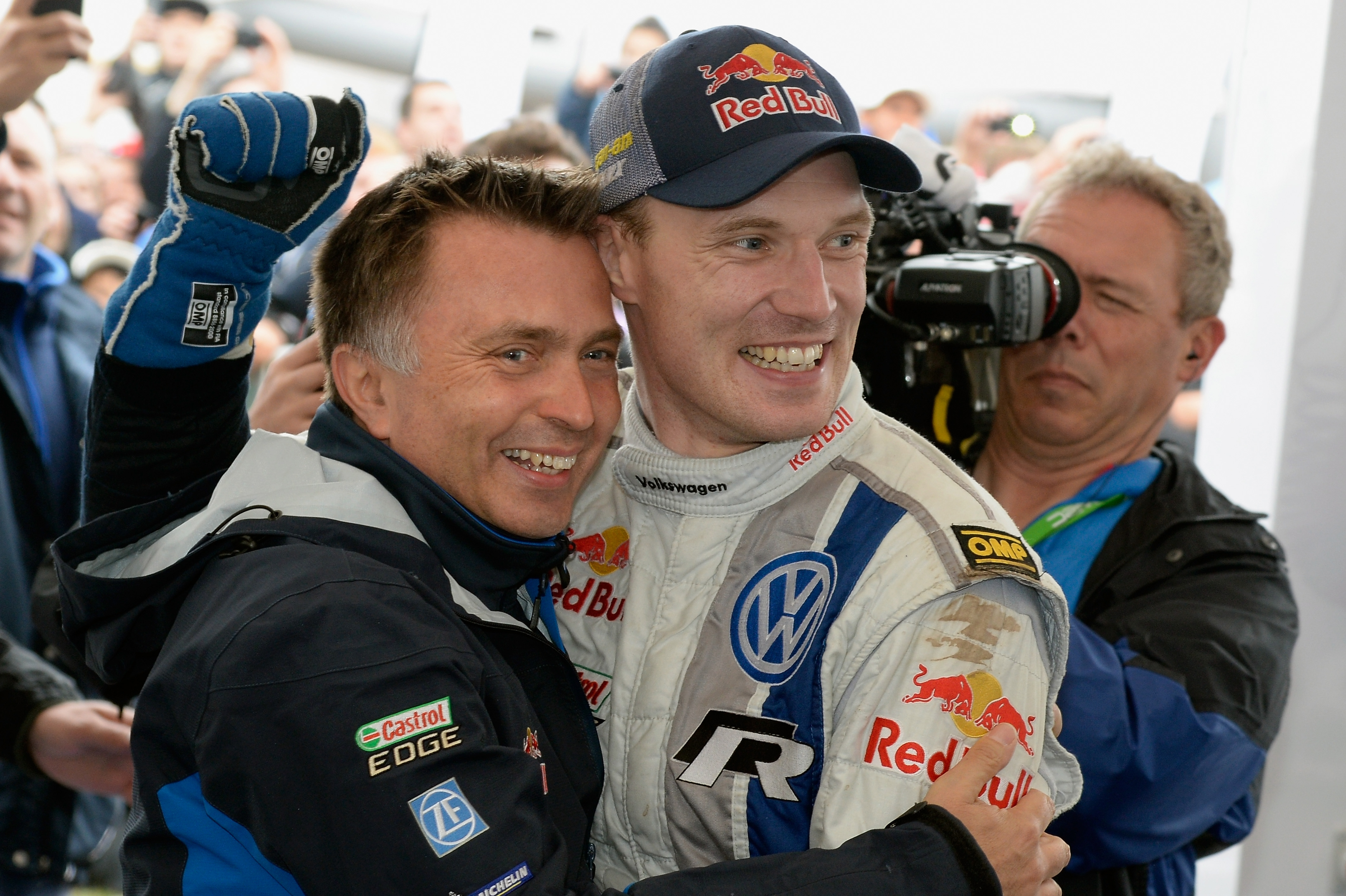 Jari-Matti Latvala (right) and Volkswagen Motorsport team principal Jost Capito celebrates Latvala's win in the 2014 Rally Argentina.